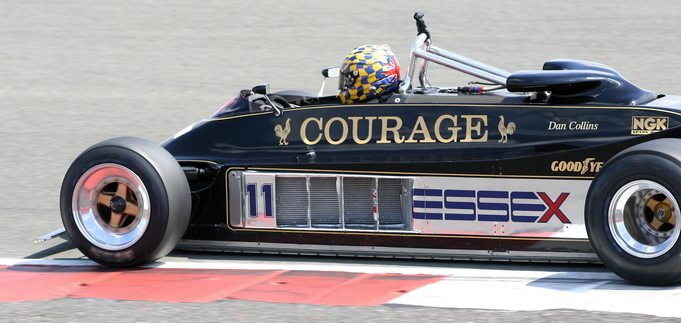 The Lotus 88 at the 2008 Silverstone Classic race meeting.